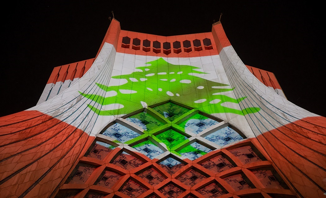 بیروت در آزادی